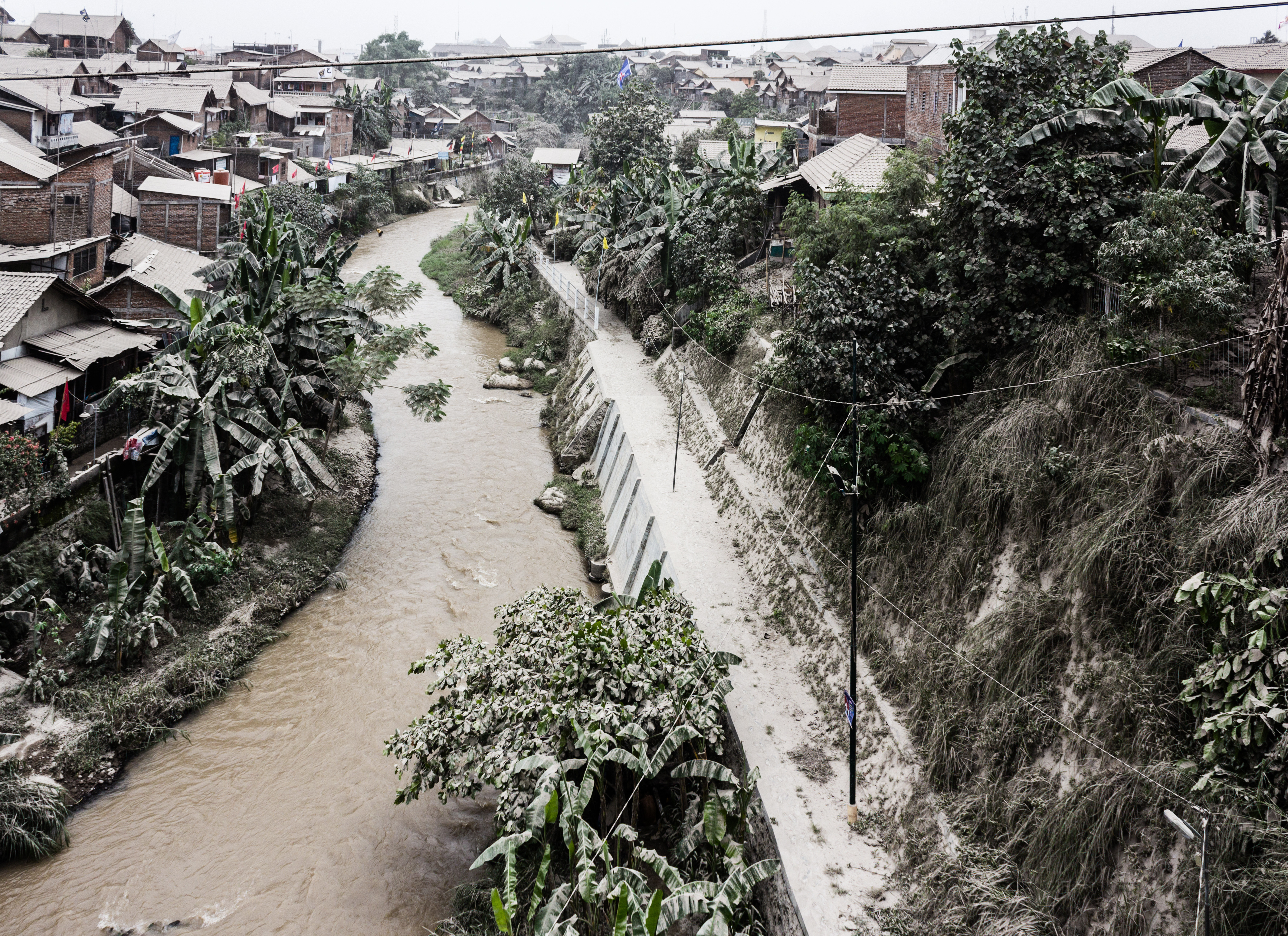 Kali Code in Yogyakarta, and the nearby homes, during the 2014 eruption of Kelud